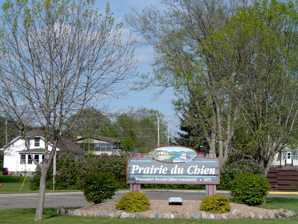 Sign in Prairie du Chien, Wisconsin. on entering from Iowa. I took this picture